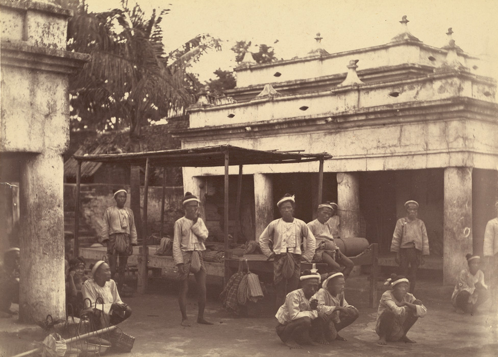 Photograph of King Thebaw's guards, Mandalay, 1885, 3rd Anglo-Burmese War Uploaded by Fowler&fowler«Talk» 21:10, 2 November 2008 (UTC)